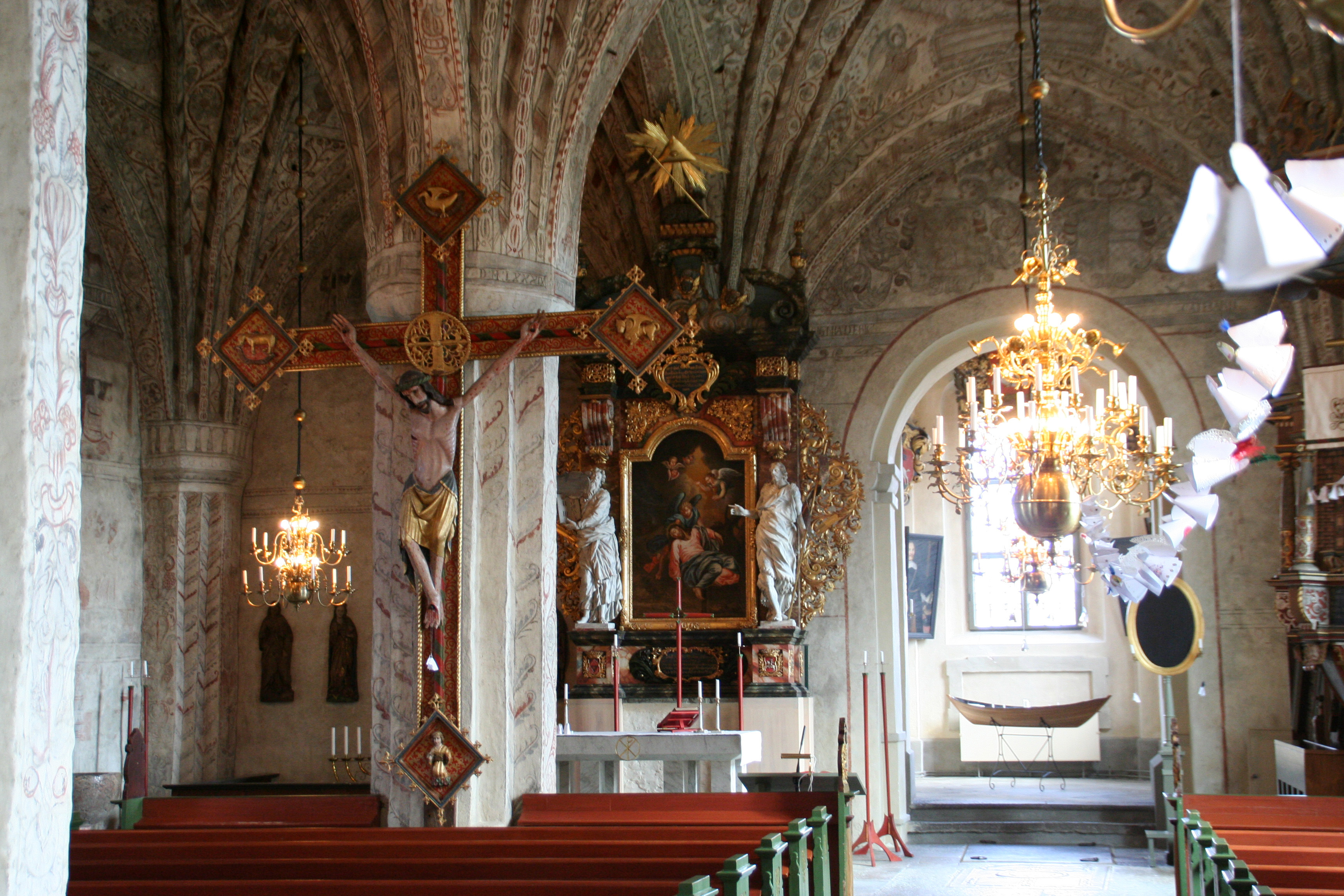 Glanshammar Church